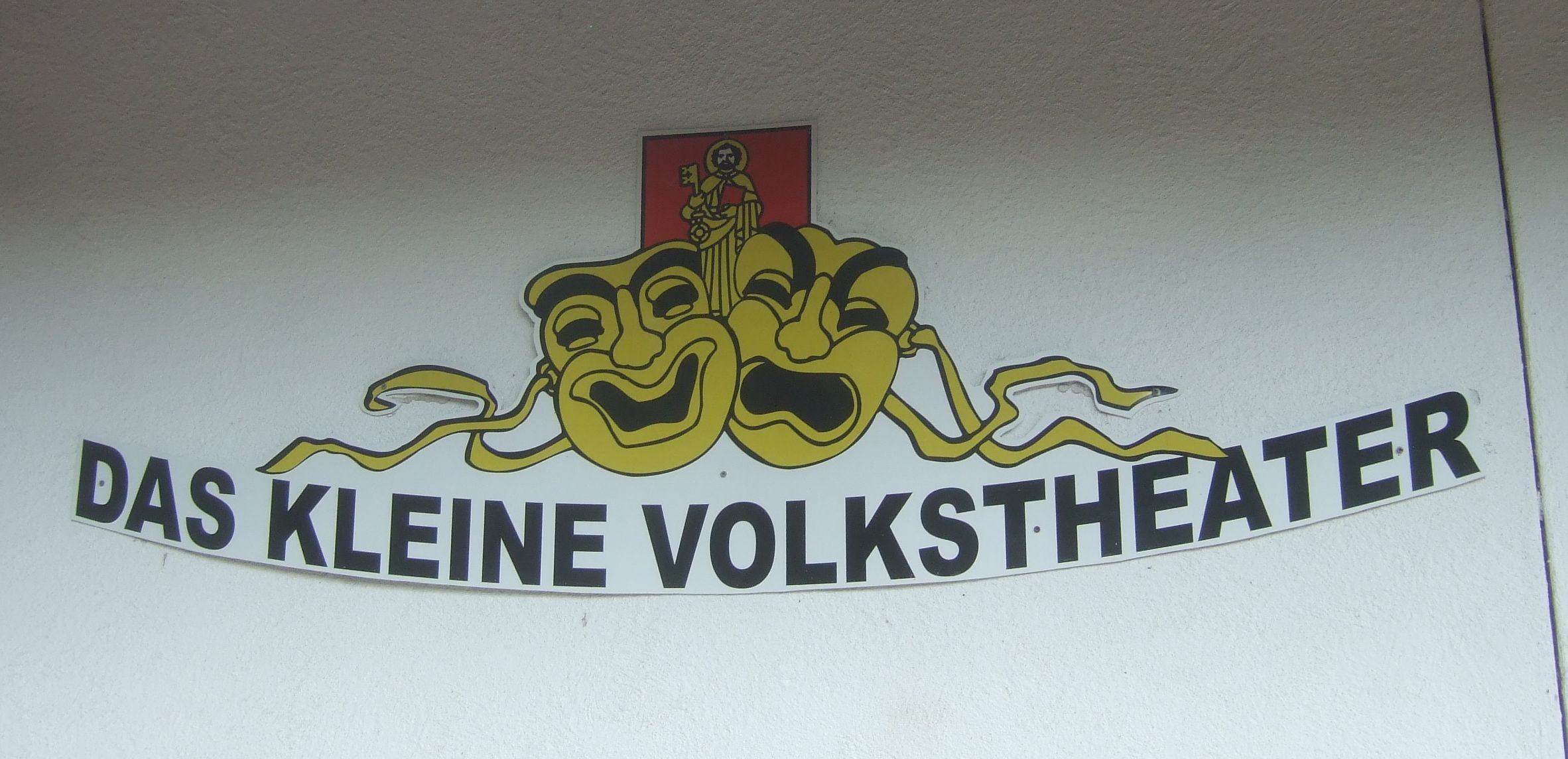 Kleines Volkstheater Trier, Logo